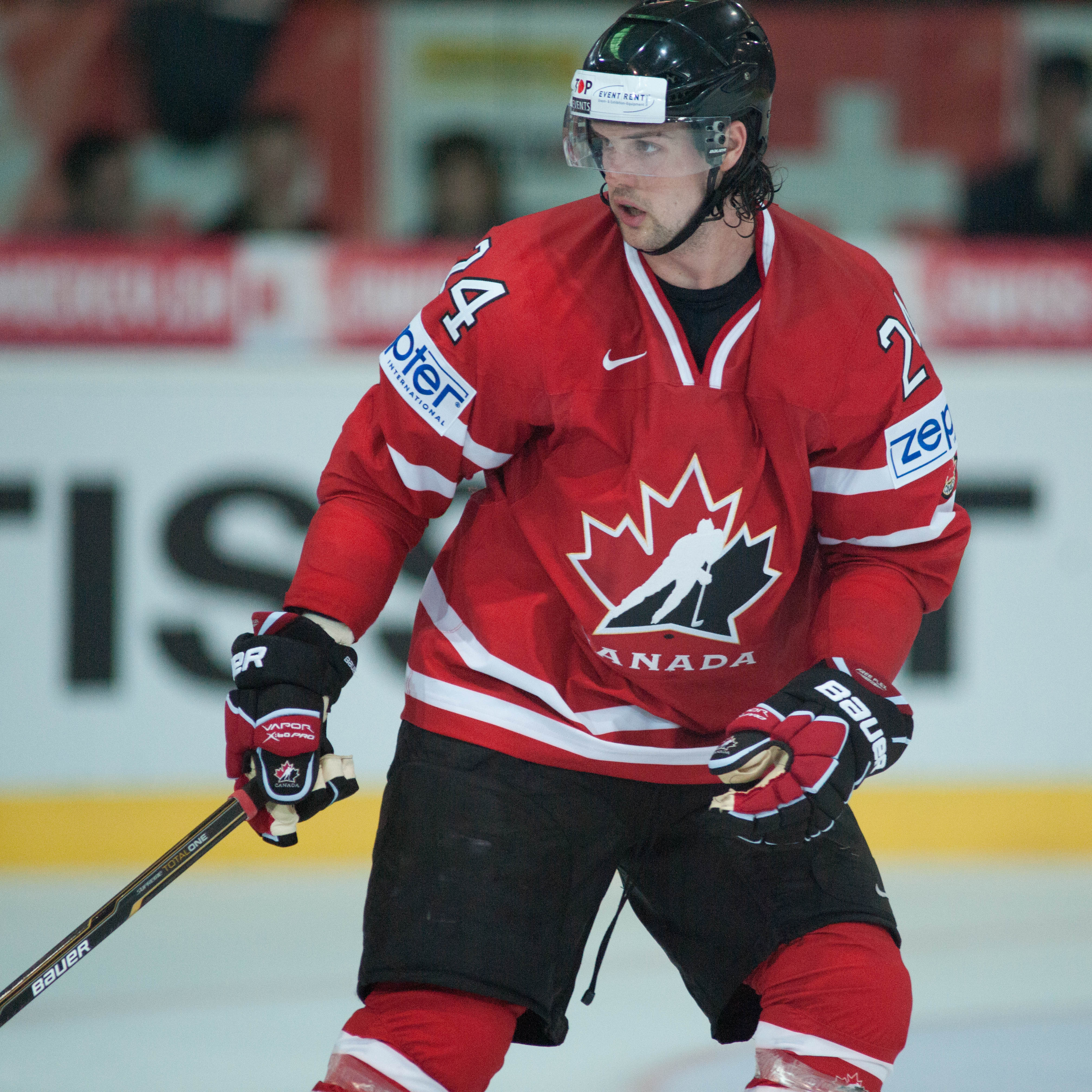 Switzerland vs. Canada, 29th April 2012